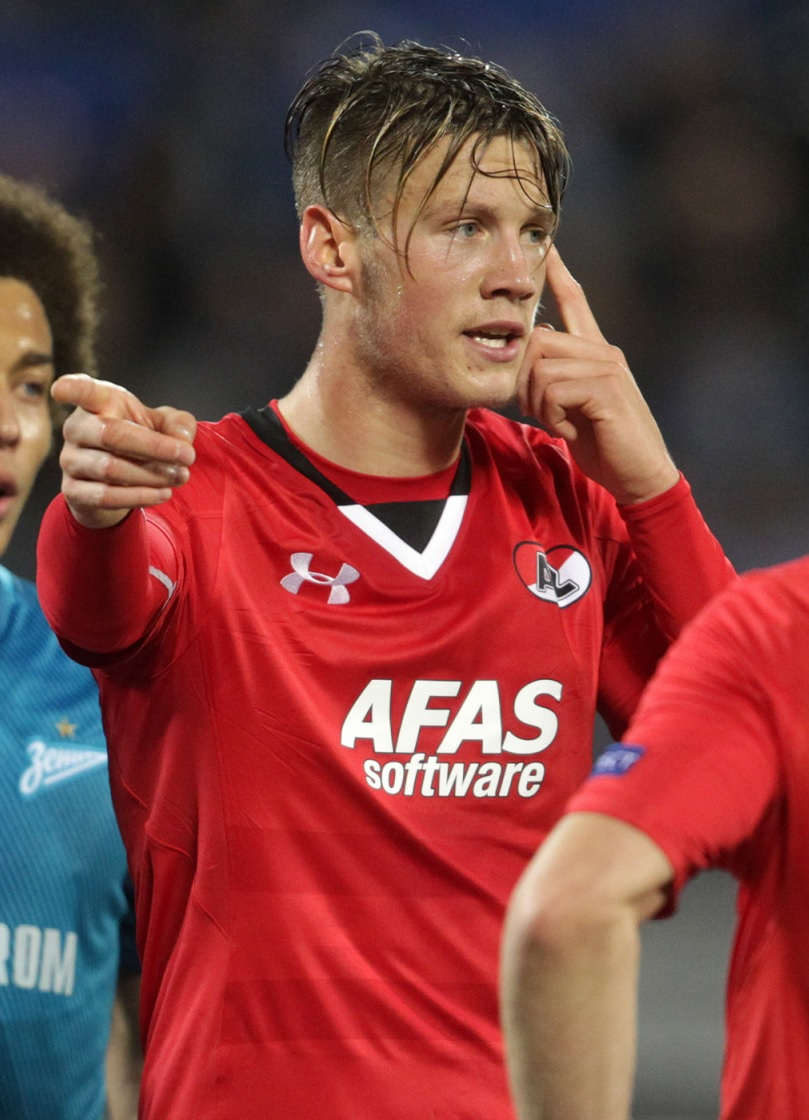 Wout Weghorst playing for AZ in a game against FC Zenit Saint Petersburg.